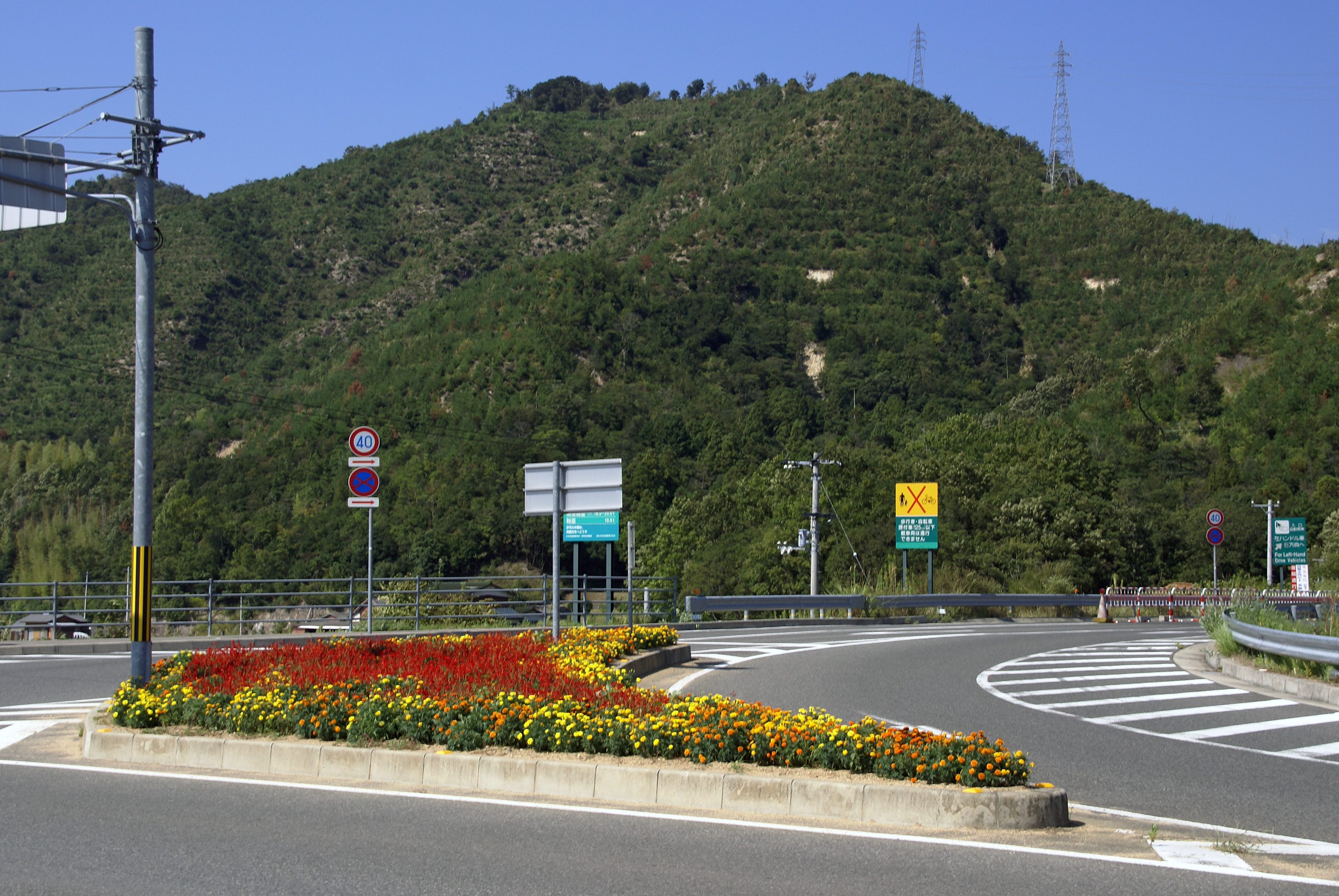 Takamatsu Expressway, scenery near Hiketa interchange in Higashikagawa, Kagawa prefecture, Japan